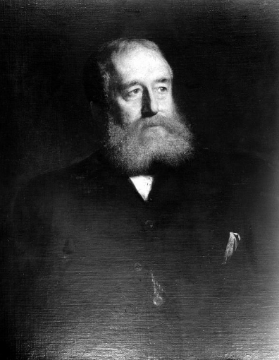 Joseph Wesley Harper Artist Eastman Johnson, 29 Jul 1824 - 5 Apr 1906 Sitter Joseph Wesley Harper, 1830 - 1896 Date c. 1880 Type Painting Medium Oil on canvas on pressed wood Dimensions 74.8 x 62.2cm (29 7/16 x 24 1/2") Credit Line Current Owner: Columbia University, Art Properties Website: Object number COO.523 CU Data Source Catalog of American Portraits See more items in Catalog of American Portraits